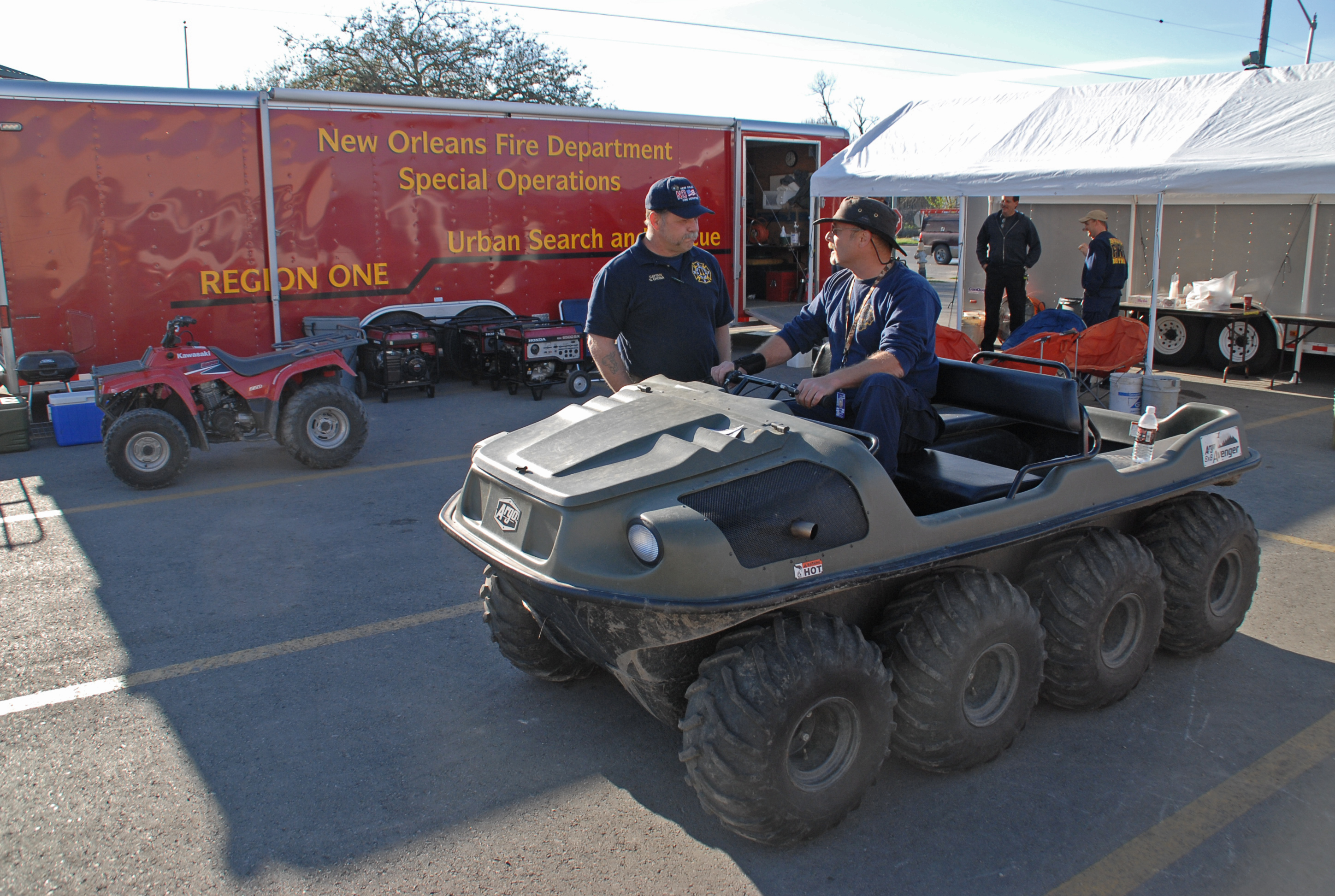 9th Ward, New Orleans, LA, 3-15-06 -- Captain Gregory Choina & Richard Veazey of the NOFD USAR team SELA TF1 prepare to head out in an All Terrain Vehicle (Argo 8x8 Avenger) to aid in search and recovery for human remains in the destruction left by Hurricane Katrina. All homes being demolished in 9th Ward are searched by a search and recovery team that includes special search recovery dogs so that no human remains are left in houses that are being demolished.